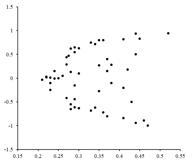 "Fanning out" effect of Heteroscedasticity